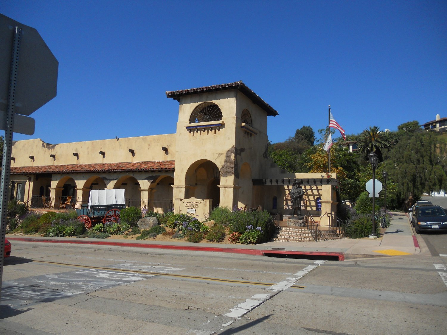 Mormon Battalion Historic Site & Museum in Old Town San Diego, viewed from across Juan St on October 1st, 2011. The museum is owned and operated by The Church of Jesus Christ of Latter-day Saints.